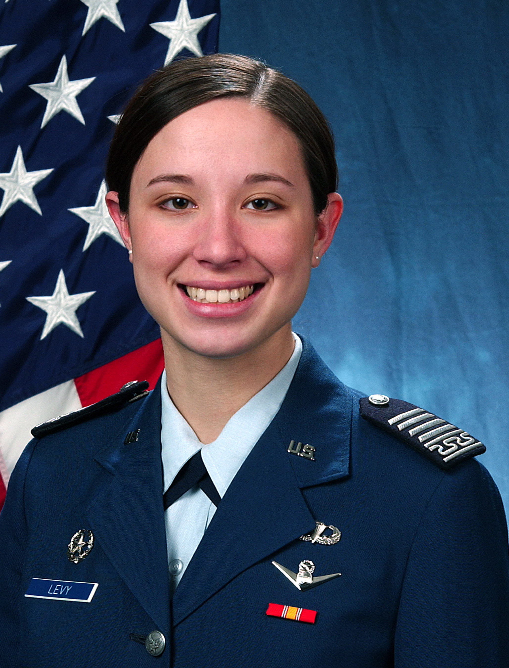 Cadet 1st Class Hila Levy.